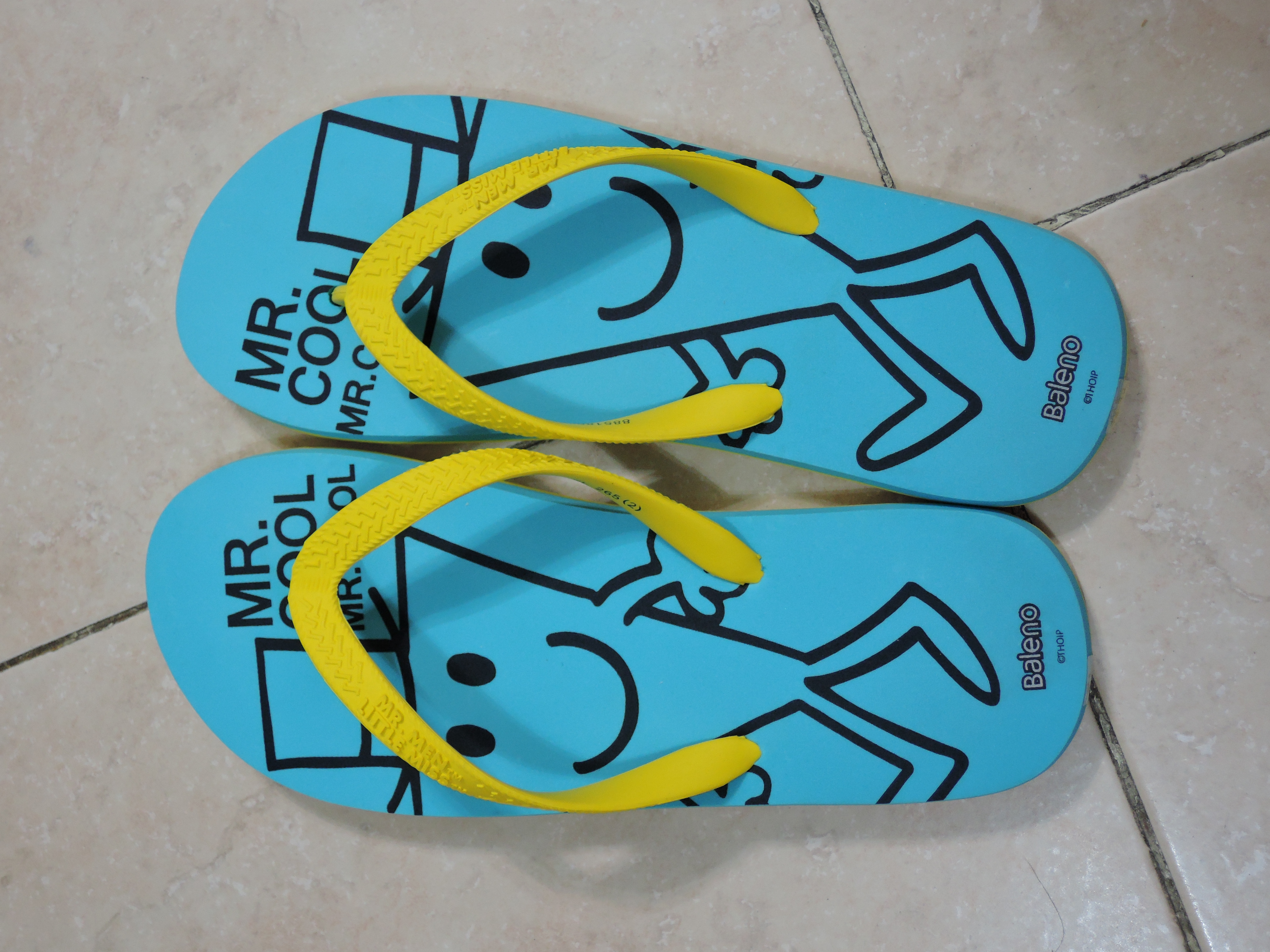 blue Mr.cool flip-flops in home